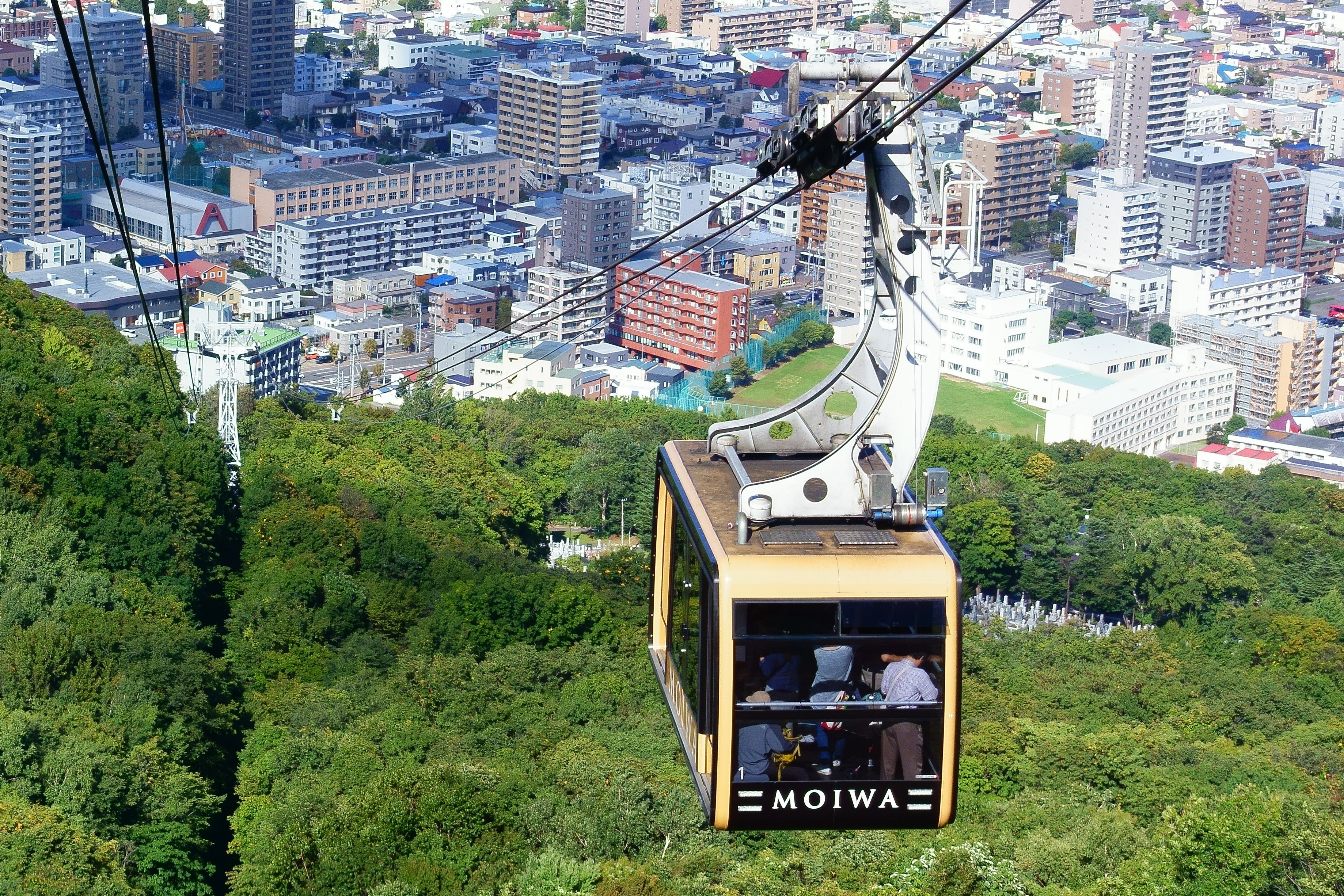 New gondola of Mt.Moiwa Ropeway (2011-) .